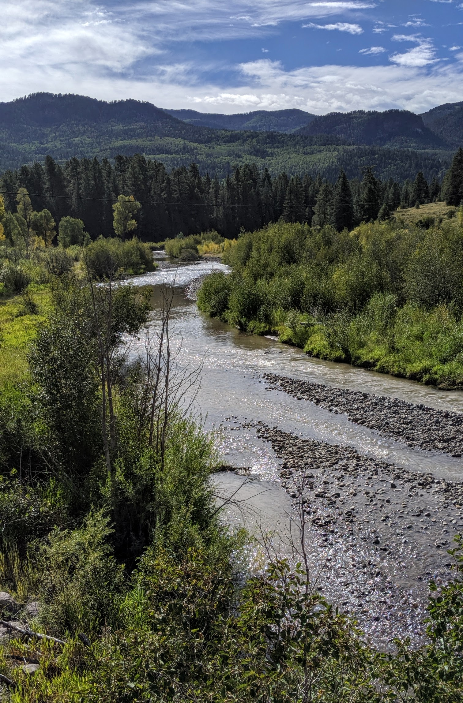 West Fork San Juan River at US highway 160 crossing